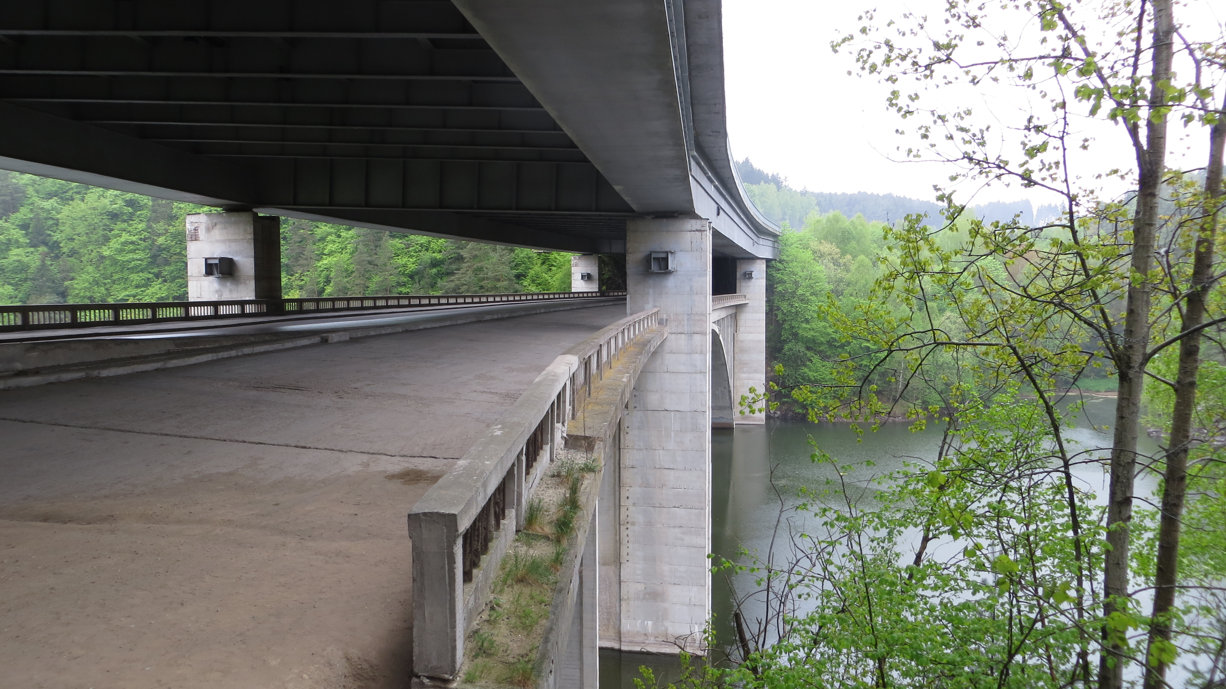 Overview of Vojslavický most in Vojslavice, Pelhřimov District.